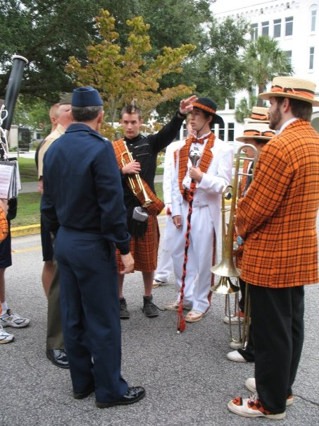 Band President Alex Barnard dealing with administrators from The Citadel.